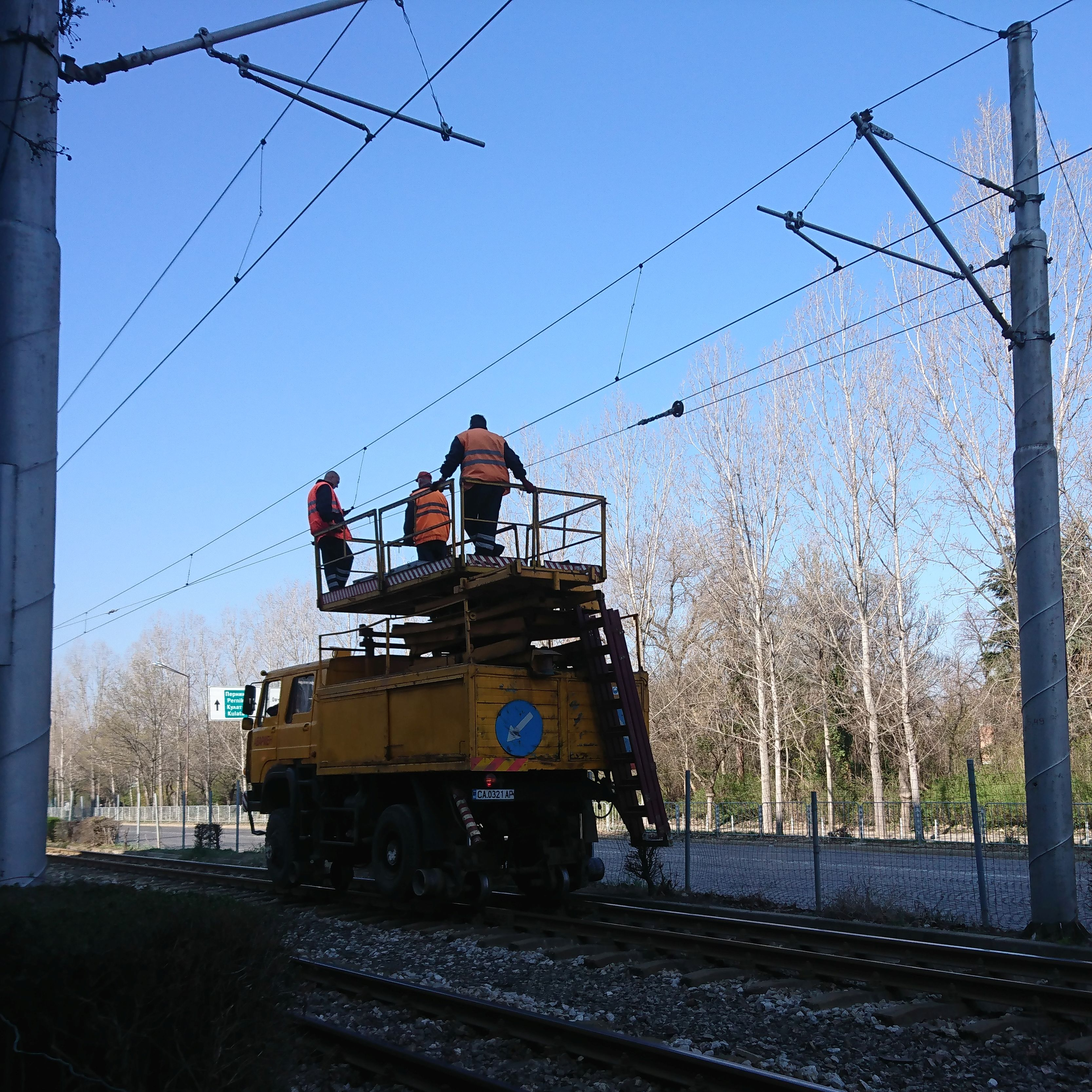 Road-rail truck checking the electrical net of the tram line on Tsar Boris III Blvd. in Sofia.